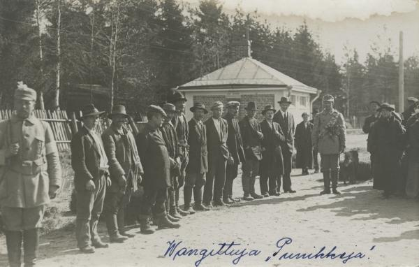 1918 Finnish Civil War. Red Guard Prisoners in the Terijoki railway station.